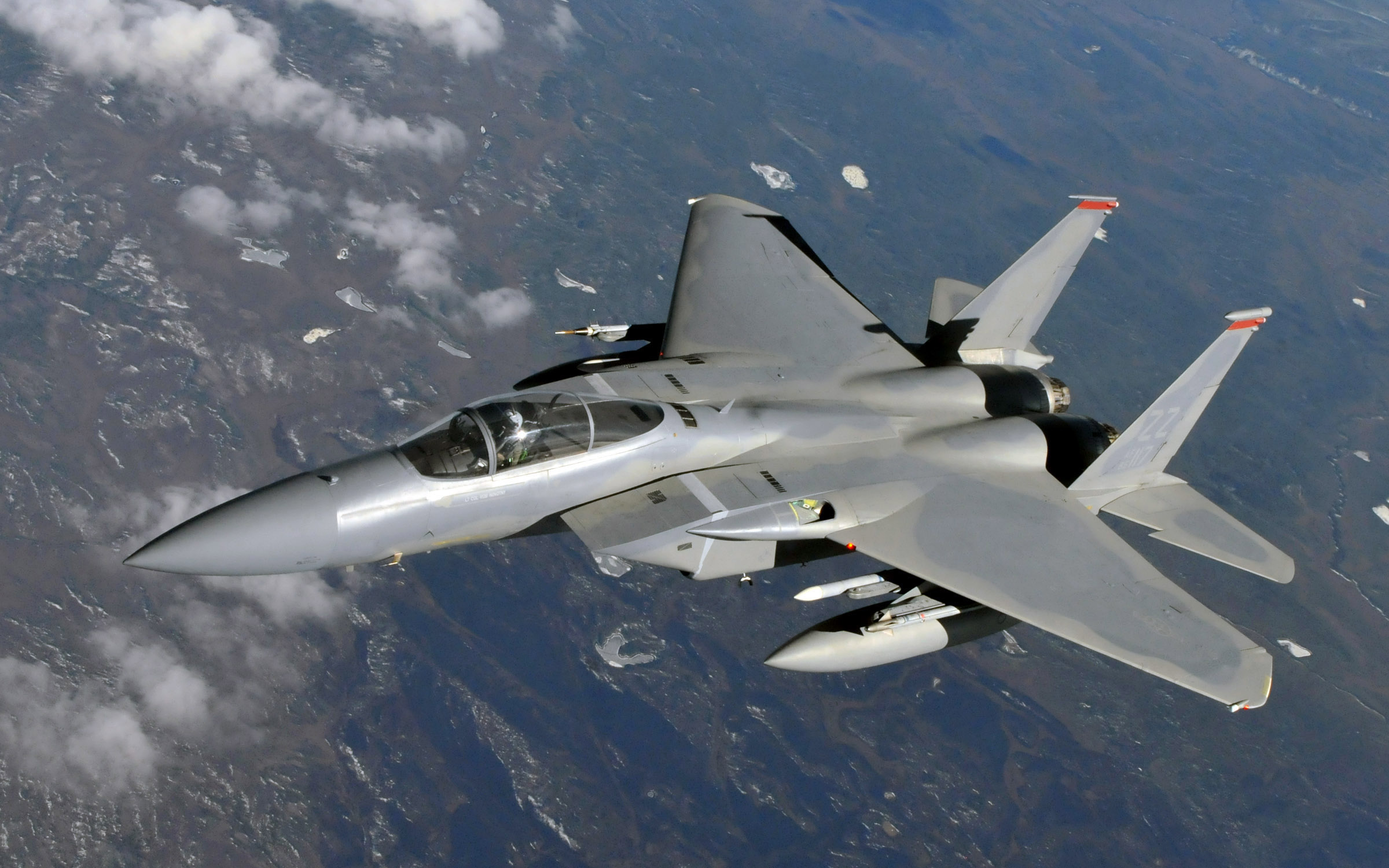 An F-15C Eagle aircrew from the 67th Fighter Squadron, returns to the "fight" after receiving fuel from a KC-135 Stratotanker from Fairchild Air Force Base, Wash., during Red Flag-Alaska April 27.